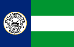 City flag for Brunswick. I created this image myself based on the actual flag on the second floor of Old City Hall in Brunswick.